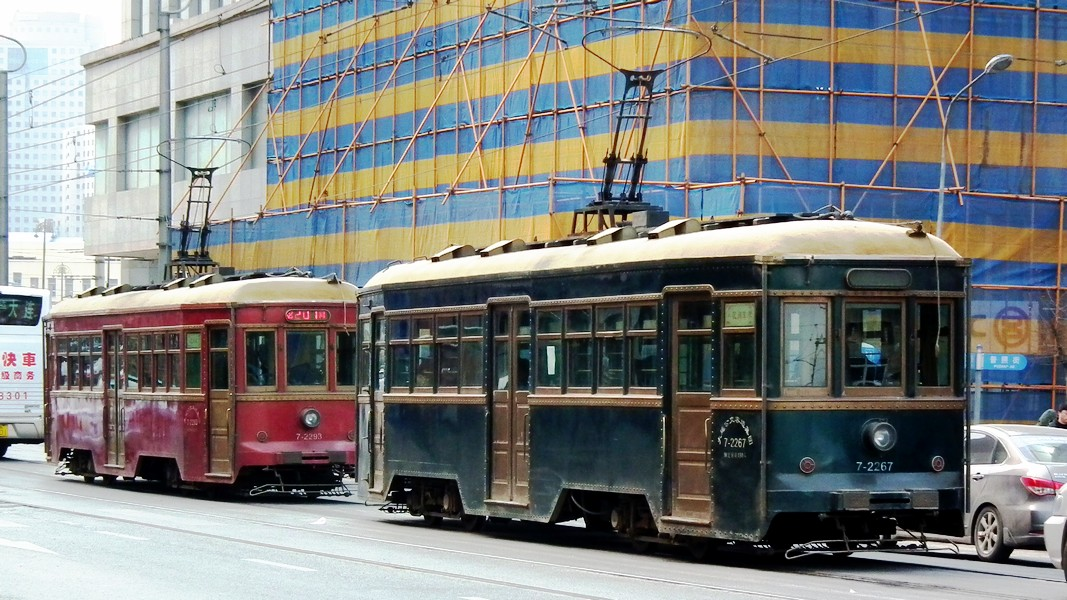 Trams in Dalian, Liaoning. It runs on route 201.